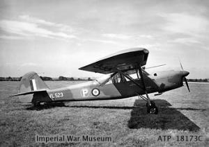 Auster Model M (A2/45) The second of two prototype aircraft built. The first prototype made its maiden flight on 27 April 1948.